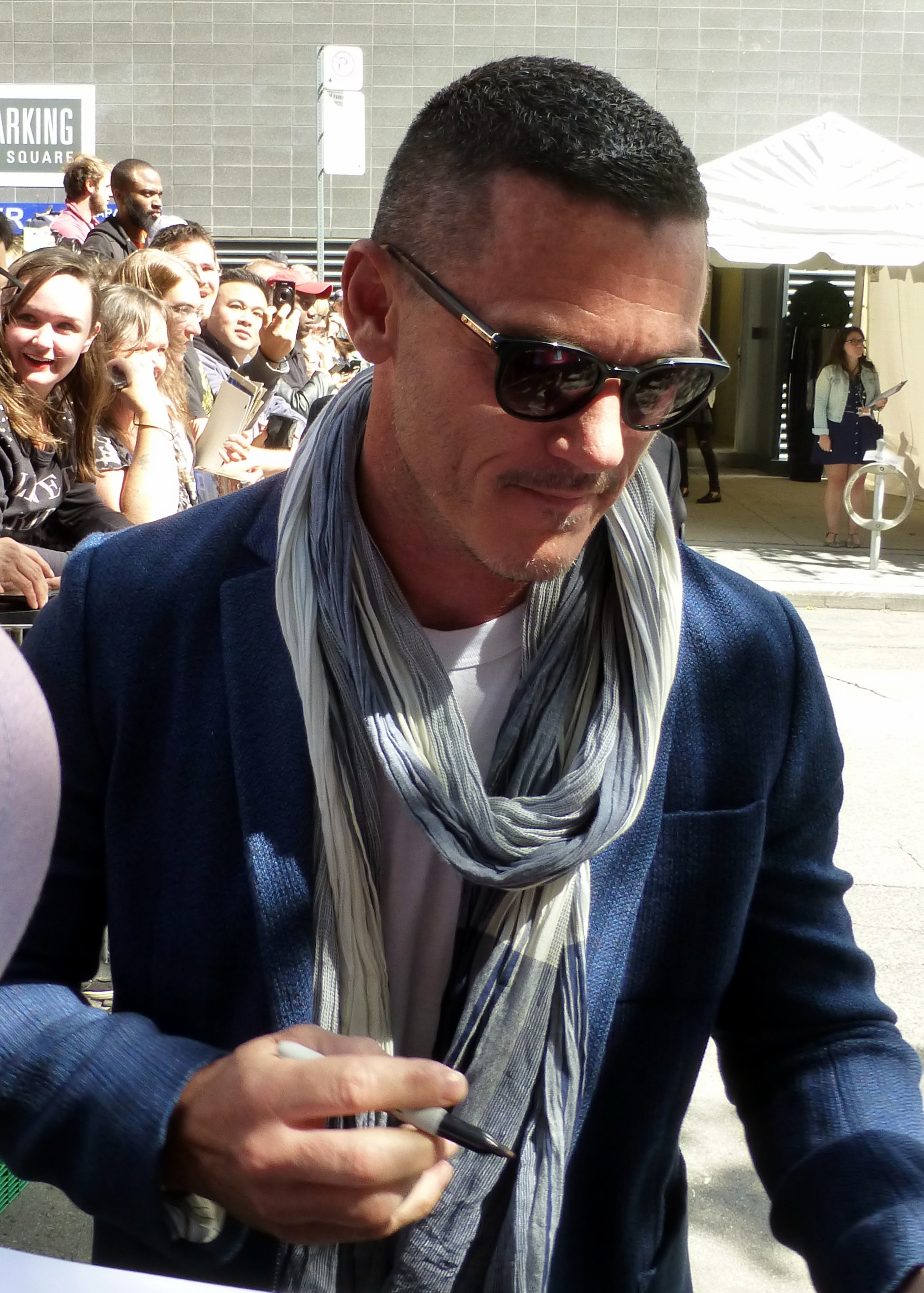 Luke Evans at the press conference of High Rise, 2015 Toronto Film Festival